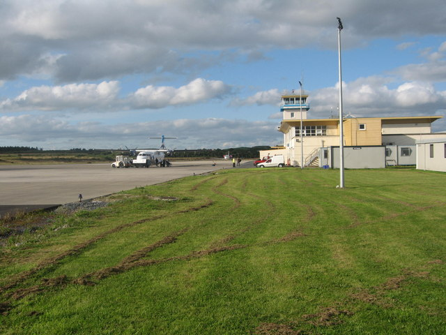 Aircraft loading at Waterford Airport, Waterford, Ireland